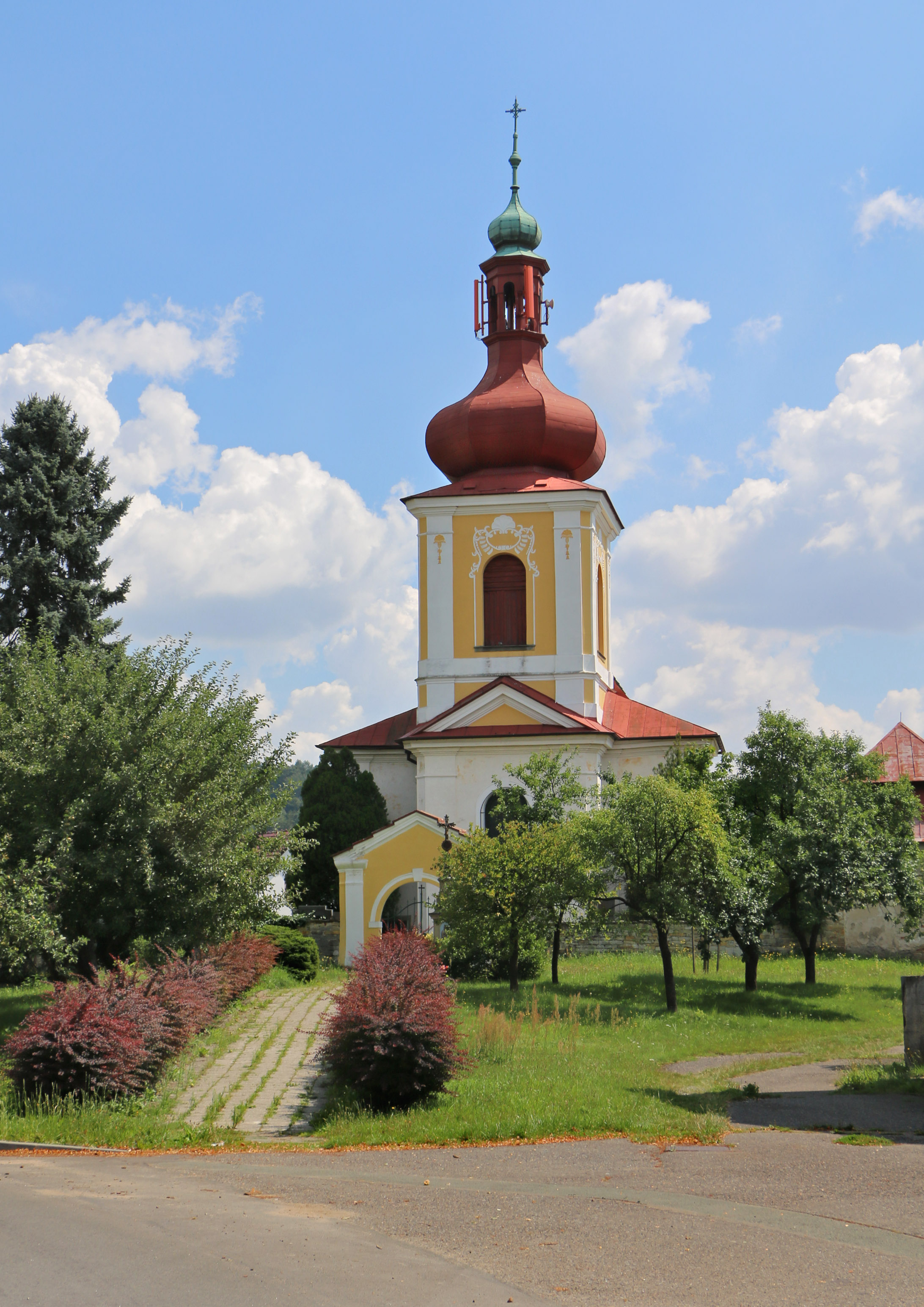 Church in Křivice, part of Týniště nad Orlicí, Czech Republic.